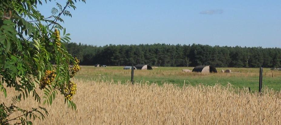 Free range with pig breeding, organic farming in Gömnigk. The village Gömnigk is an incorporated part of the town Brück in the district Potsdam Mittelmark, state Brandenburg, Germany. Gömnigk appertains to the natural preserve Naturpark Hoher Fläming.